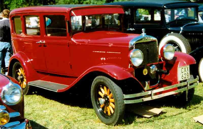 Plymouth Model 30- 4-Door Sedan 1930